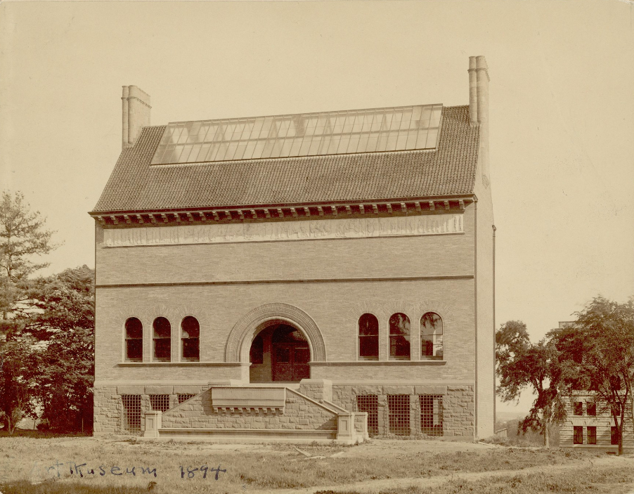 The original building of the Princeton University Art Museum, built 1890, designed by A. Page Brown, demolished 1963. Princeton University Library. Department of Rare Books and Special Collections. Seeley G. Mudd Manuscript Library.. Box AD01, Item 7398